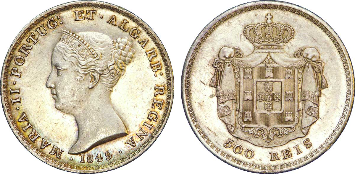 500 Réis à l'effigie de Marie II, 1849